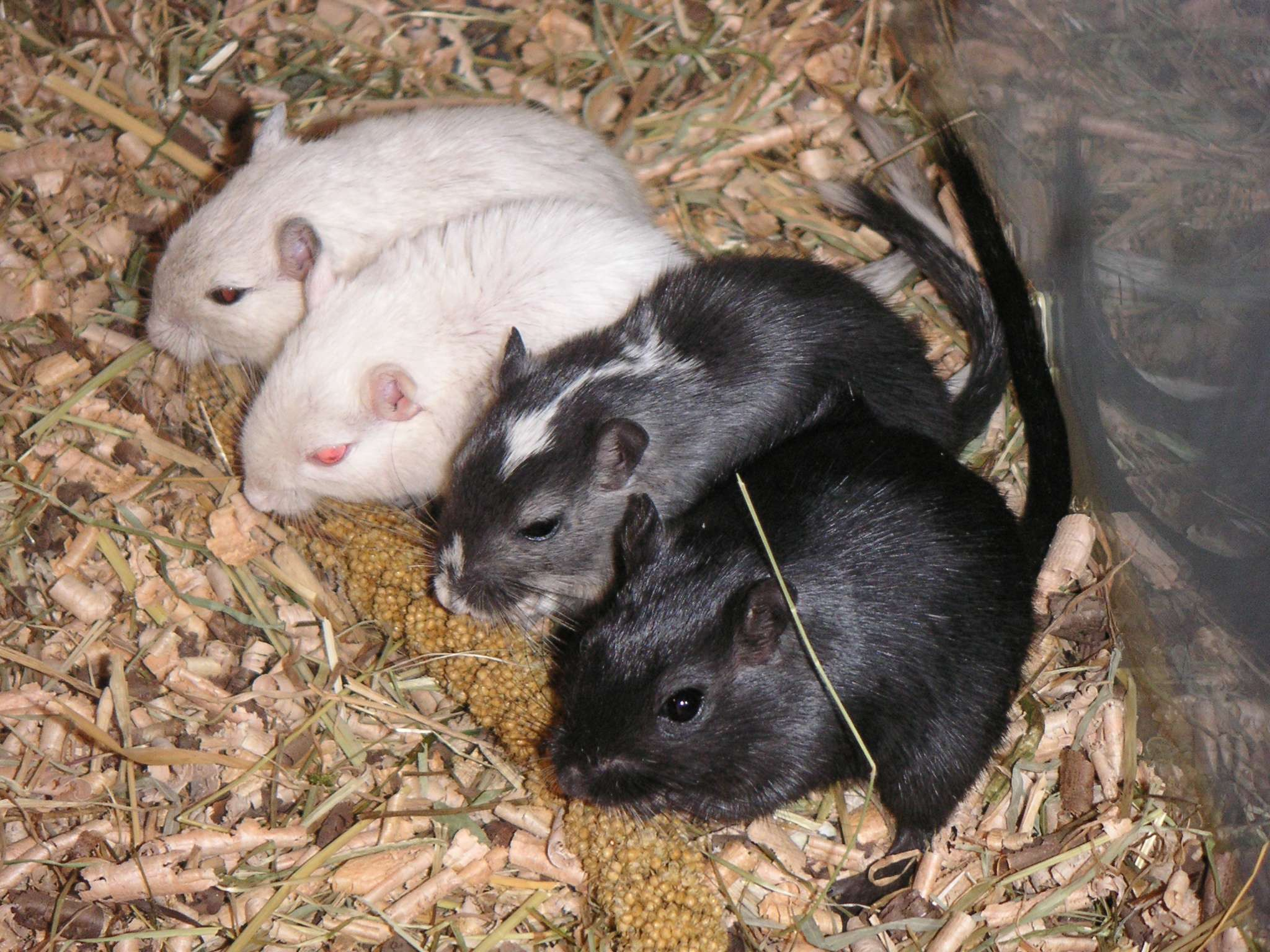 Four Mongolian Gerbils with different color coats